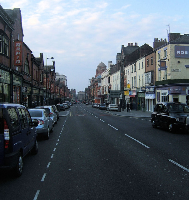 Renshaw Street, Liverpool Taken on a Sunday evening, with St George's Hall in the distance.